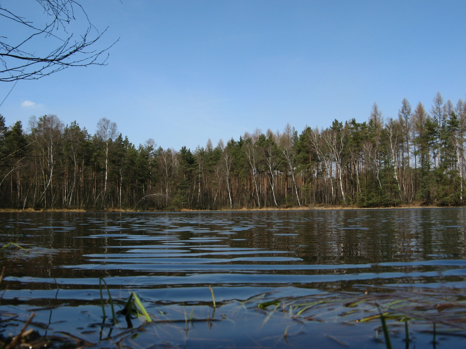 Black Pond in Niepołomice Forest.